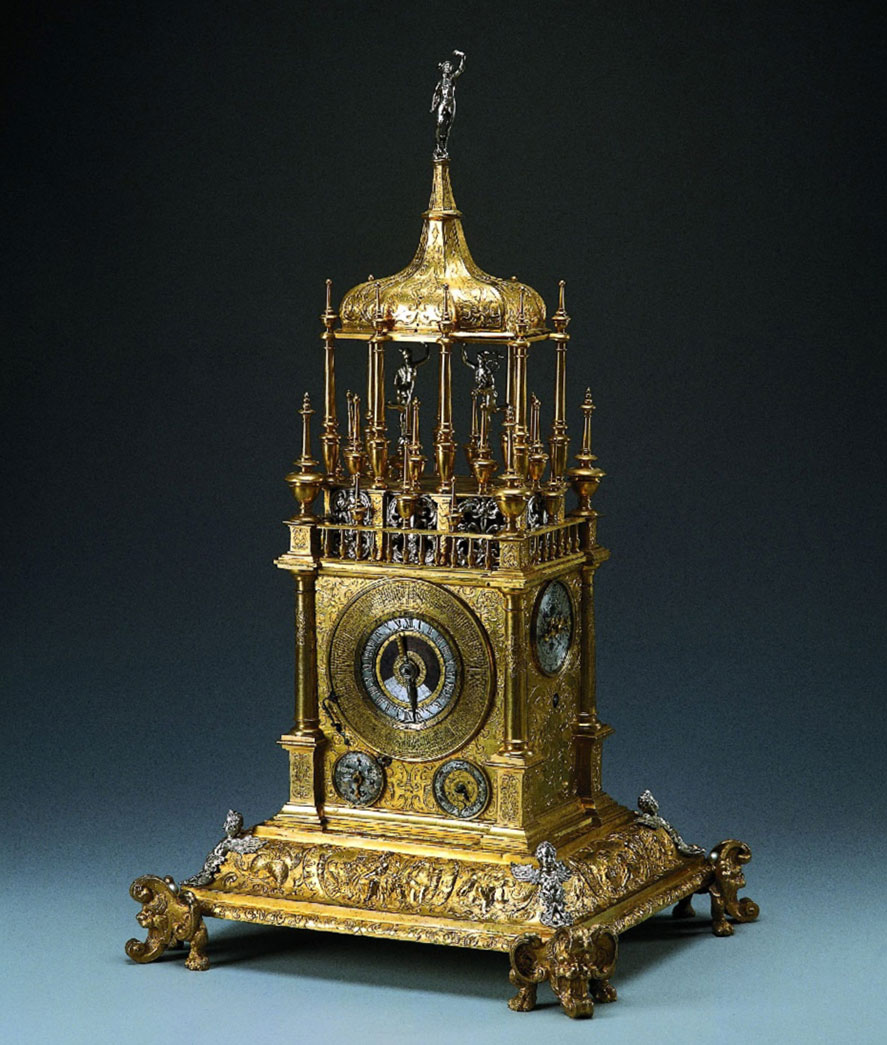 Gotha, Schloss Friedenstein, Schlossmuseum, Astronomical table clock, 1647